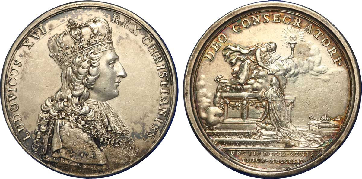 Sacre à Reims de Louis XVI le 11 juin 1775